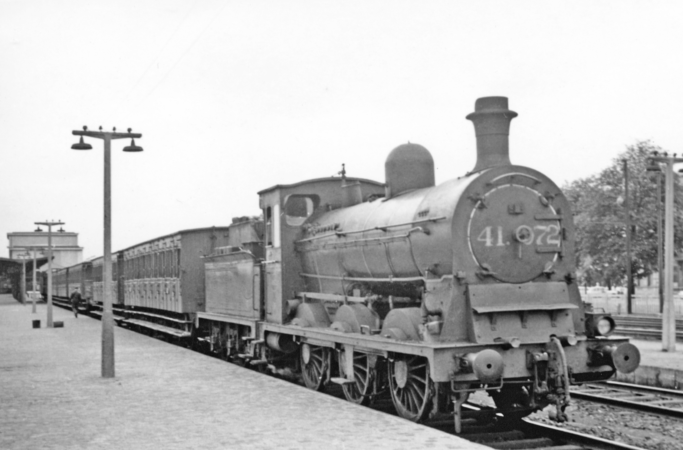 Mons station, with Class 41 0-6-0 No. 41.072 on a local train.